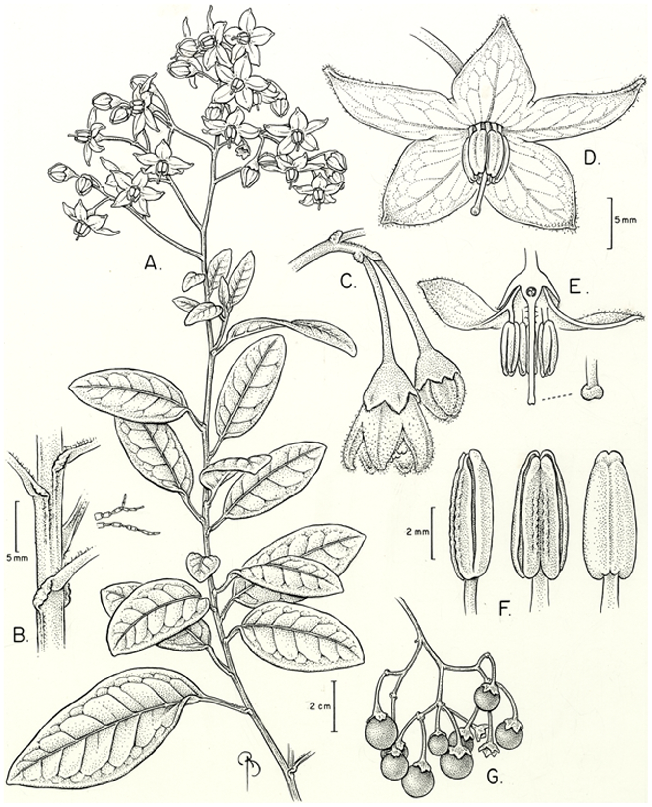 Drawing from the first publication of Solanum sanchez-vegae A) portion of stem, B) petiole articulation, C) buds, D) open flower, E) flower cross-section showing stigma detail, F) anthers, G) fruit. A–F drawn from Smith & Sanchez-Vega 7524, G from Hutchison et al. 5738.